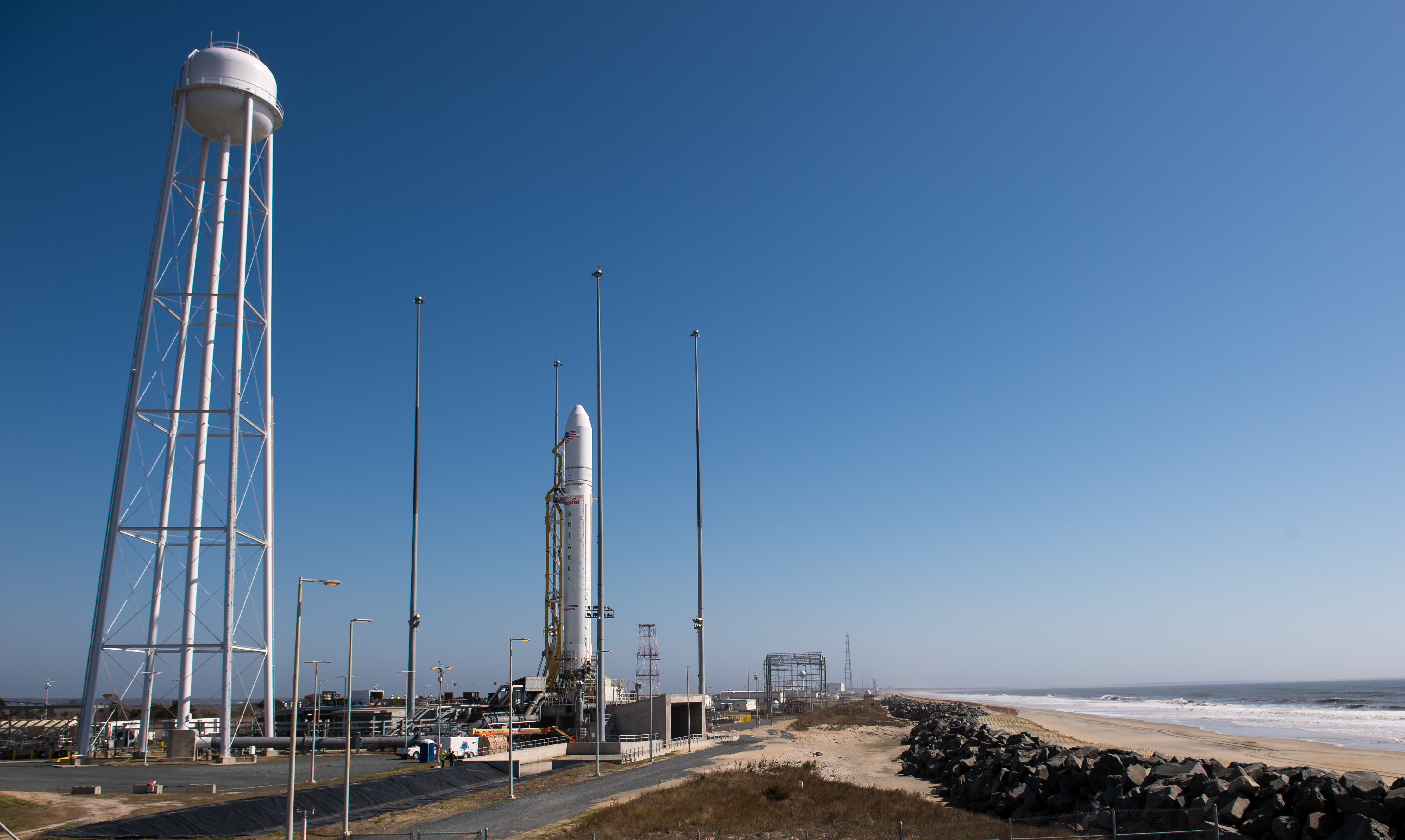 The Orbital Sciences Corporation Antares rocket is seen on the Mid-Atlantic Regional Spaceport (MARS) Pad-0A at the NASA Wallops Flight Facility, Tuesday, April 16, 2013 in Virginia. NASA's commercial space partner, Orbital Sciences Corporation, is scheduled to launch Antares on Wednesday, April 17, 2013. For more information about the launch, visit: Photo Credit: NASA/Bill Ingalls NASA image use policy. NASA Goddard Space Flight Center enables NASA’s mission through four scientific endeavors: Earth Science, Heliophysics, Solar System Exploration, and Astrophysics. Goddard plays a leading role in NASA’s accomplishments by contributing compelling scientific knowledge to advance the Agency’s mission. Follow us on Twitter Like us on Facebook Find us on Instagram